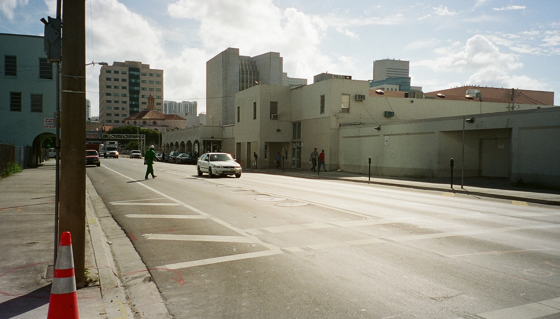 The front entrance to Camillus House shelter in inner city Miami. This is one of four shelters operated by the Archdiocese of Miami Camillus House charity.